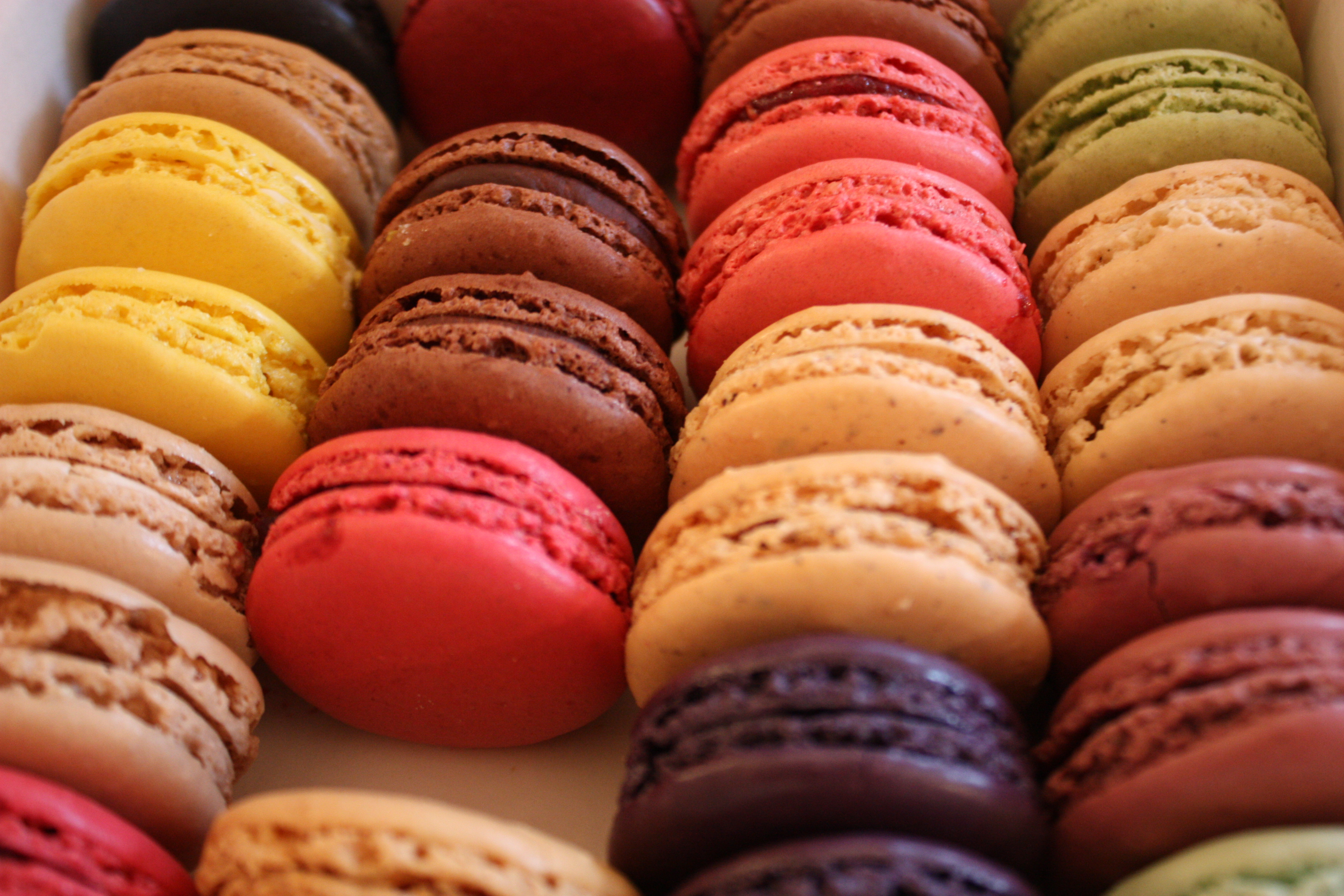 “Edible rainbow”. Macarons from Ladurée, Paris, France.